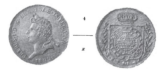 Julius Meili's Coronation Piece in 1890, is his "Numismatische Sammulung".